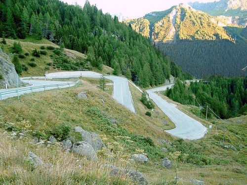 Passo Campolongo Picture taken by user Idéfix 2001